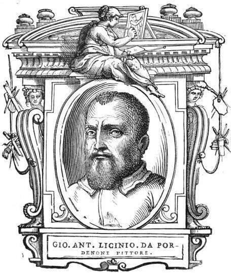 Illustratio from "Le Vite" by Giorgio Vasari, edition of 1568. For the artist portrayed see filename